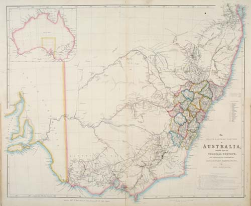 The South Eastern Portion of Australia; compiled from the Colonial Surveys, and from details furnished by Exploratory Expeditions. London, 1842. 535 x 645mm. Original colour. Detailed map of New South Wales, issued in the 'London Atlas' by John Arrowsmith, the foremost British cartographer of his generation. The newly formed counties are marked (see Nineteen Counties) as are the inland expeditions made 1817-1840. ARRO0011